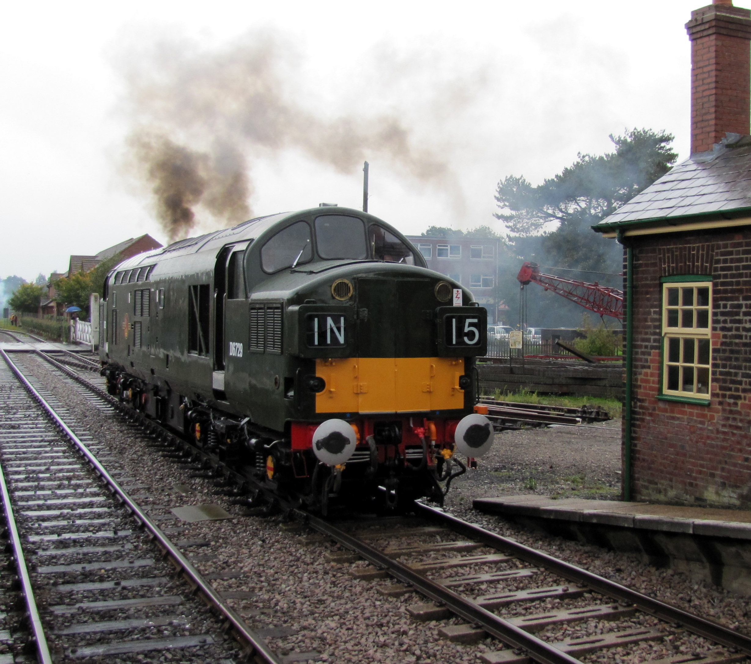 Class 37 Locomotive D6729 at Dereham station in 2010 - has been at Epping Ongar since 2012.